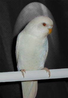 White domesticated budgerigar